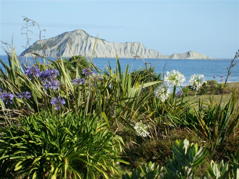 Bare Island, Waimarama, New Zealand